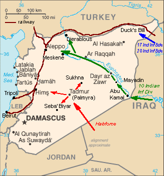 Map of Syria showing the lines of advance of Iraqforce in June - July 1941